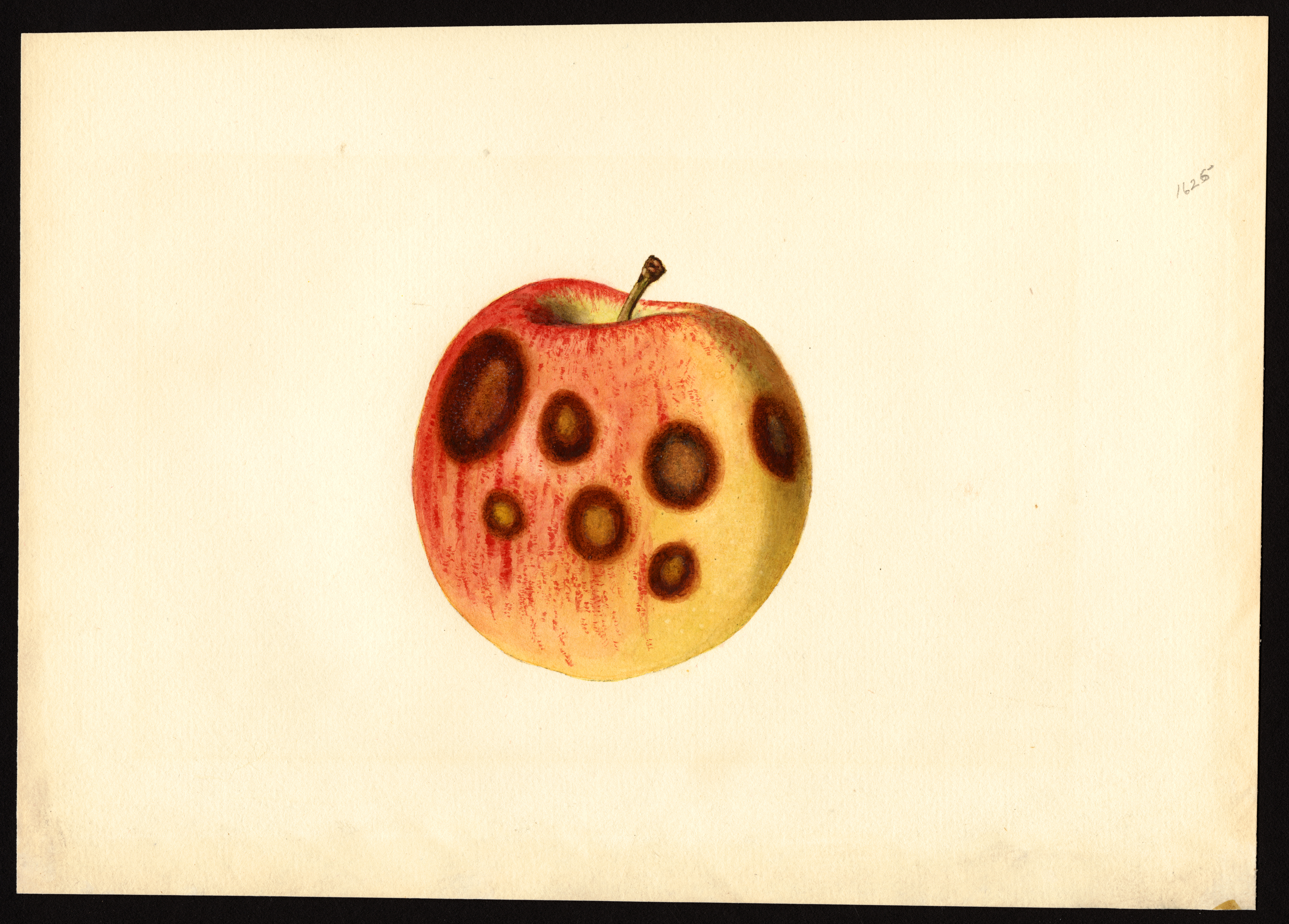 Image of the Rome variety of apples (scientific name: Malus domestica), with this specimen originating in Wenatchee, Chelan County, Washington, United States. Source: U.S. Department of Agriculture Pomological Watercolor Collection. Rare and Special Collections, National Agricultural Library, Beltsville, MD 20705.